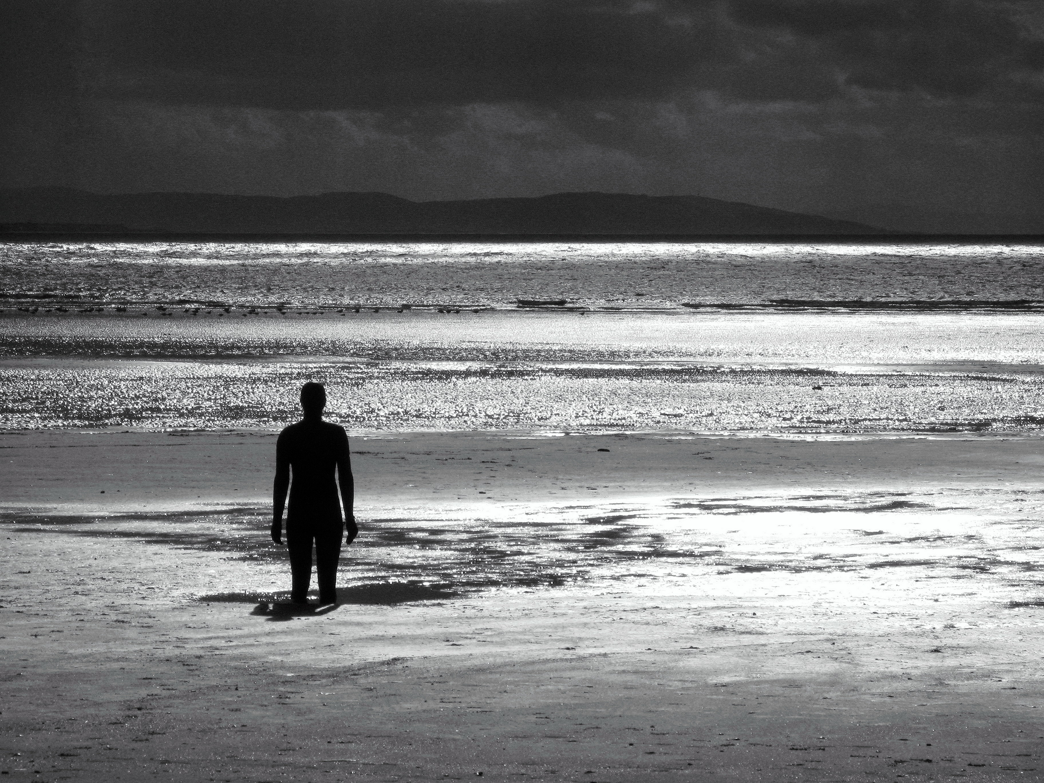 Looking from behind one of the iron men of the Antony Gormley sculpture Another Place located on Crosby beach.